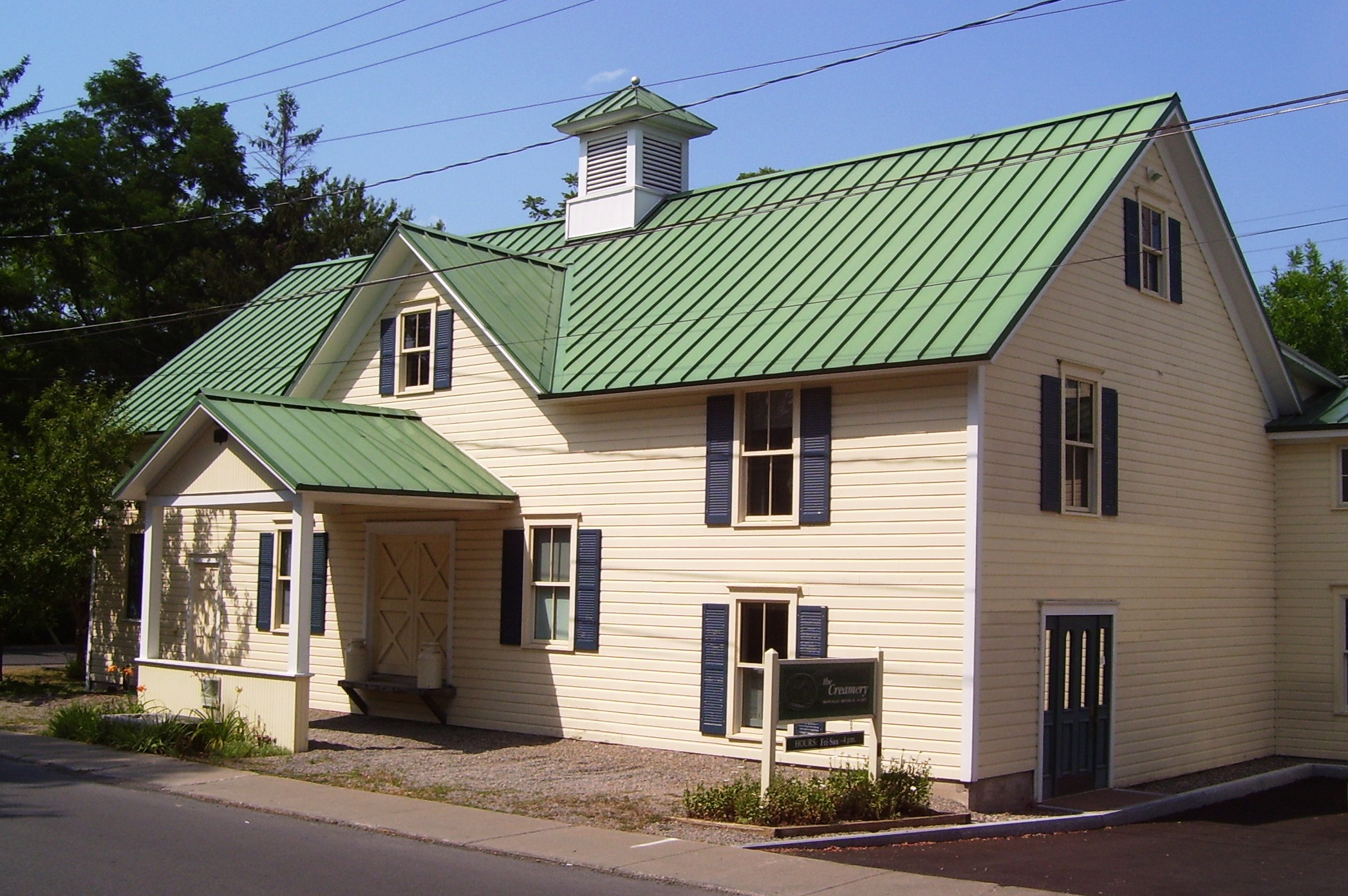 The Creamery at 29 Hannum Street at the corner of Kelley Street in Skaneateles, New York is a former creamery wwhich is now the headquarters and museum of the Skaneateles Historical Society.